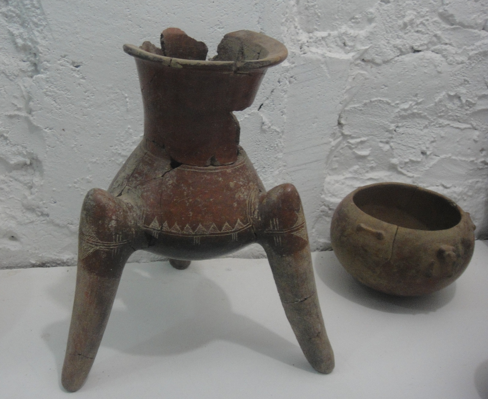 Polychrome Ceramic Tripod, Museo El Ceibo, Ometepe, Nicaragua.